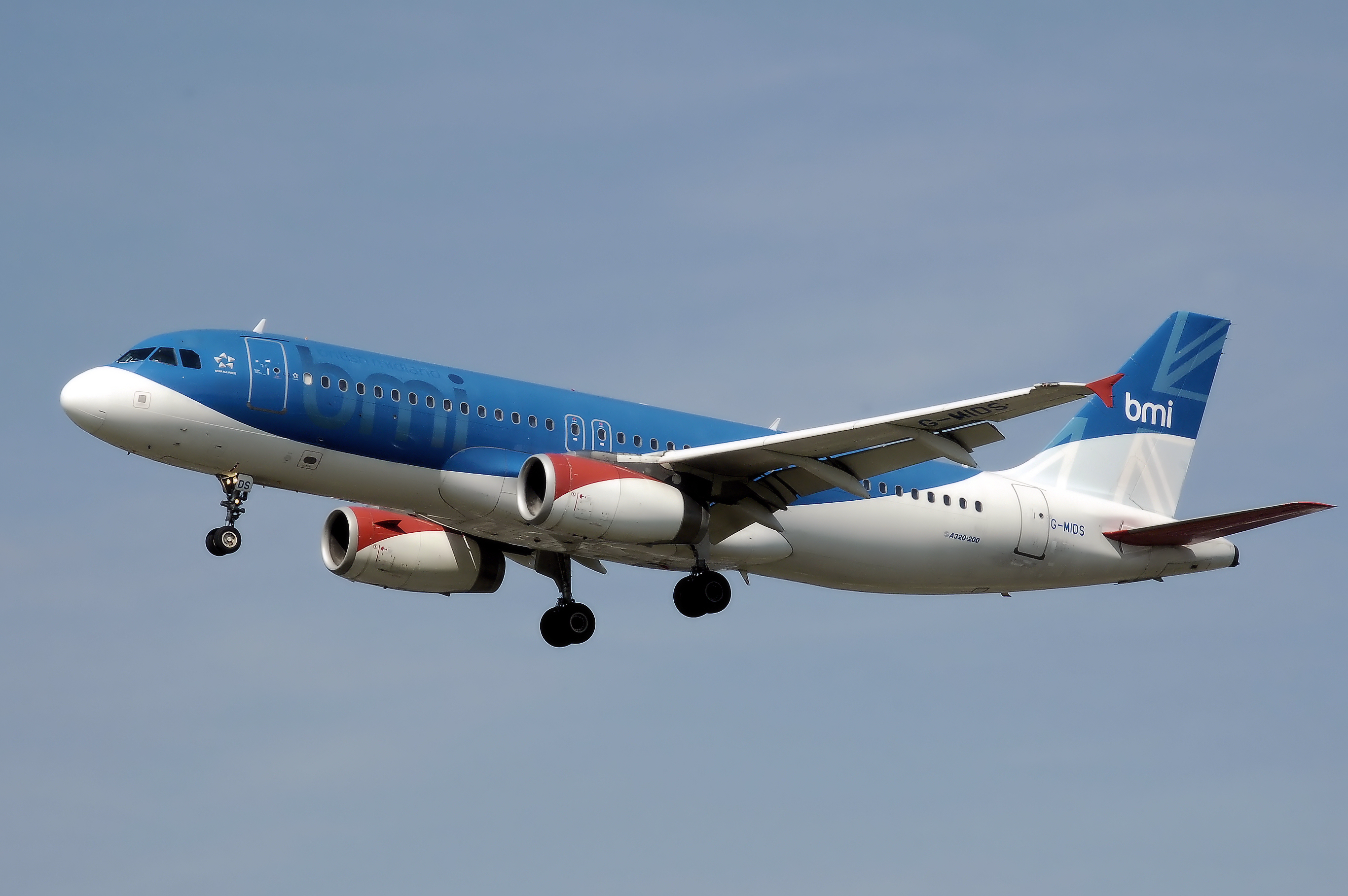 bmi Airbus A320-200 (G-MIDS) lands at London Heathrow Airport, England.